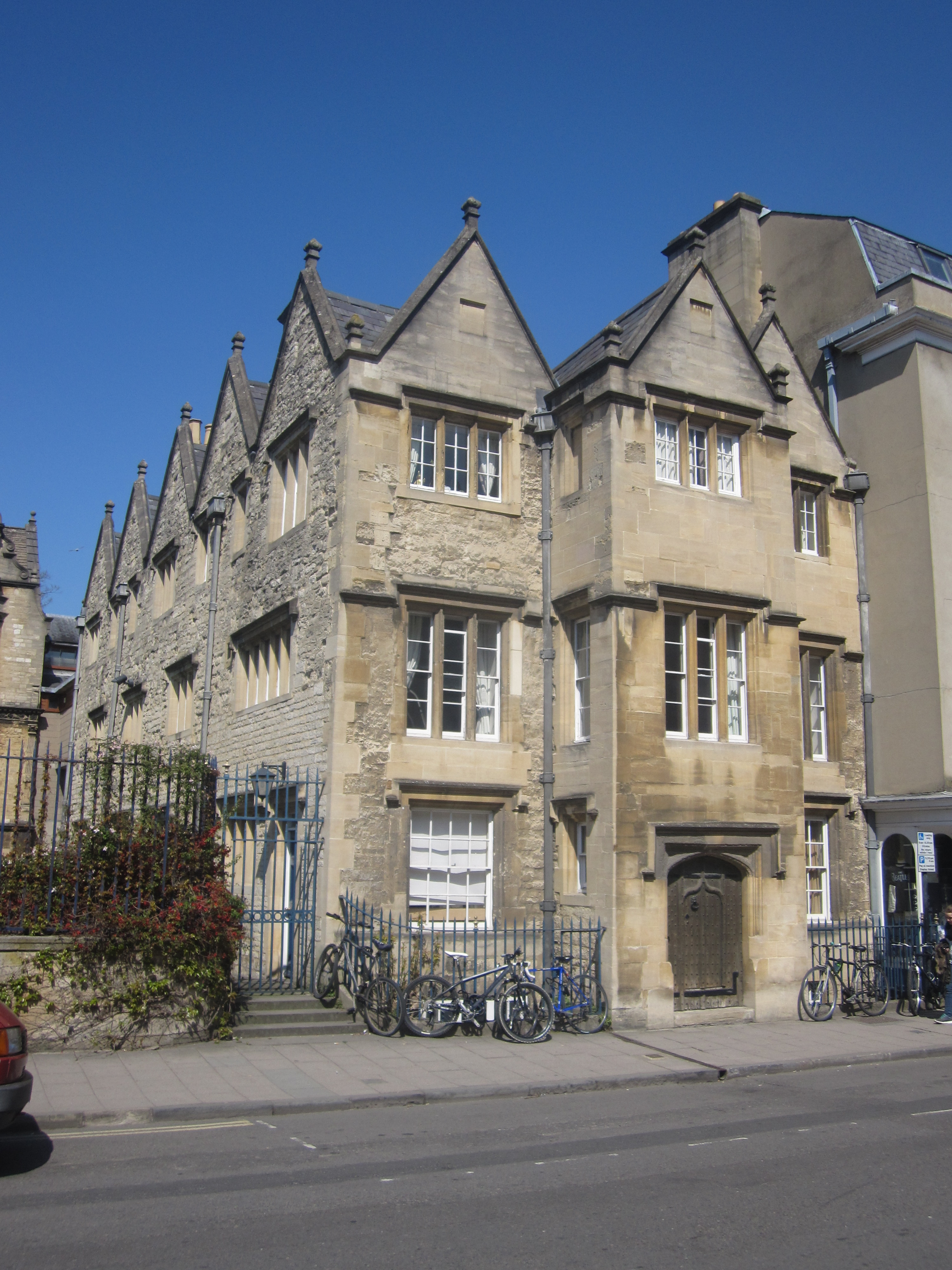 Kettell Hall, Trinity College, Oxford, England, from Broad Street. House of c.1620 built by Ralph Kettell, President of Trinity, originally for his own use.